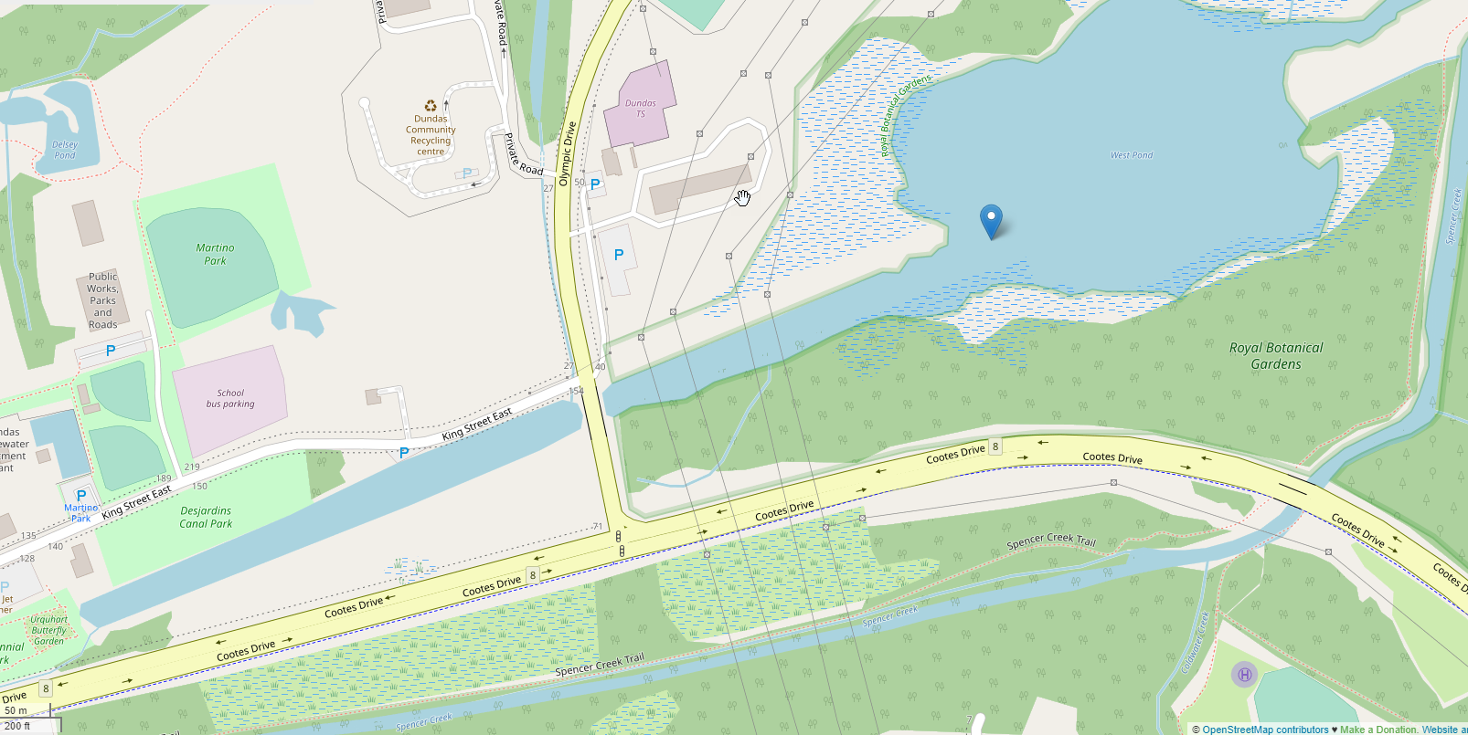 OSM map of the canal